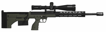 Stealth Recon Scout .338, cropped from